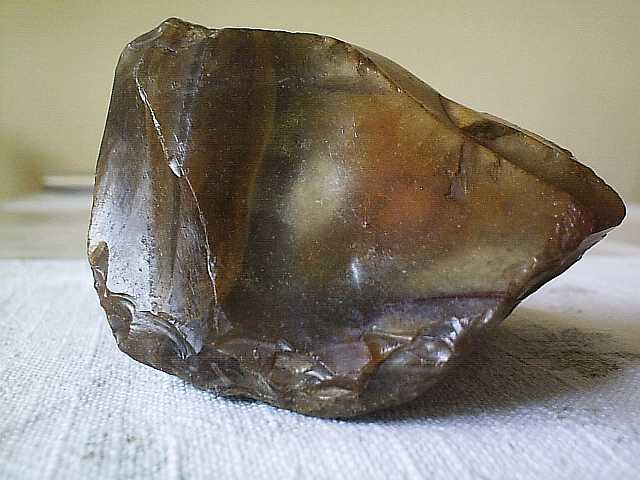 Hand axe from the Clactonian period, dated to some 350,000 years BC and excavated from Rickson’s Farm Pit, in the UK.